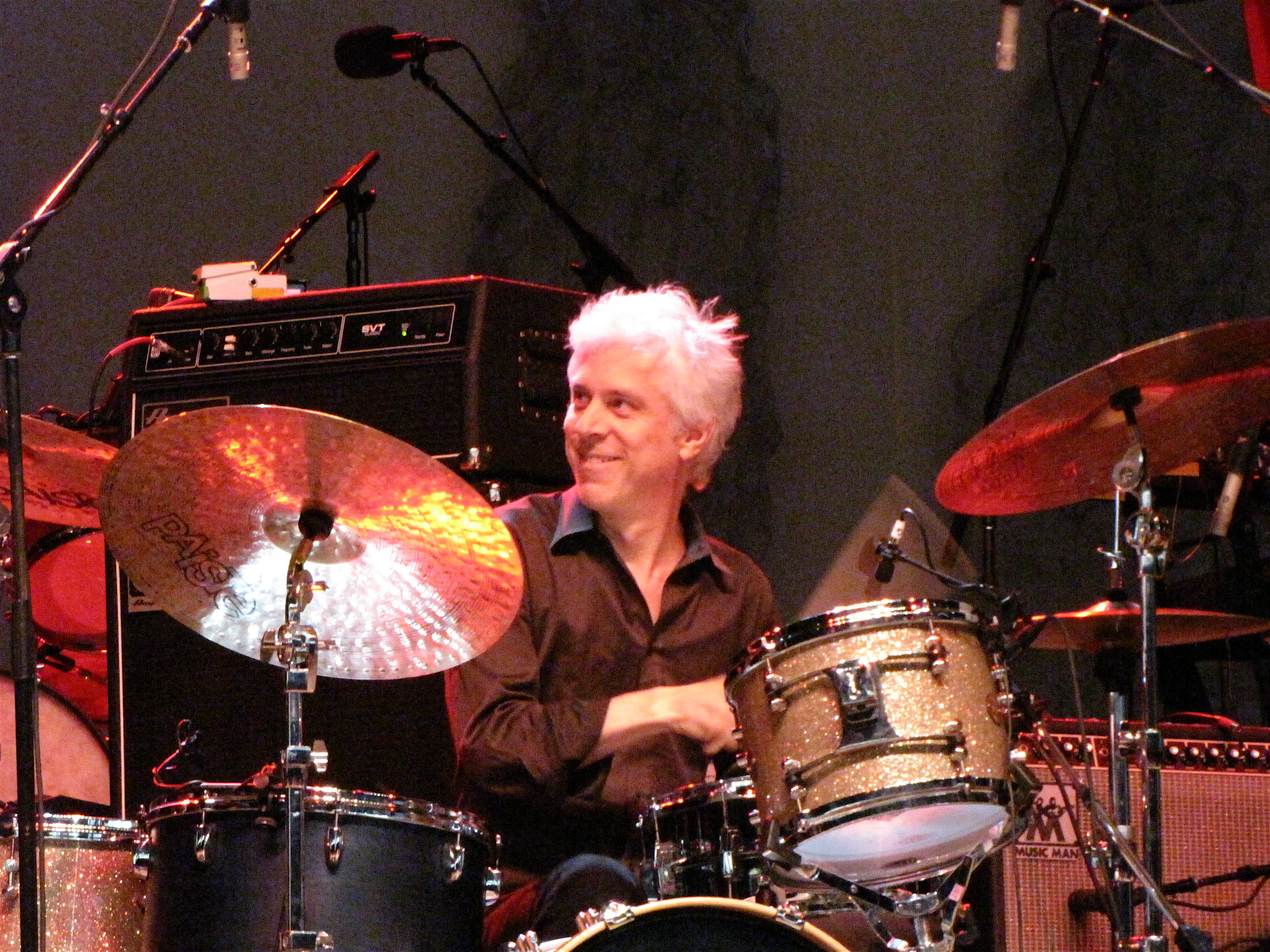 I so rarely have gotten good shots of Bill because he's always behind Robyn, so it was nice to be able to get a couple here.....